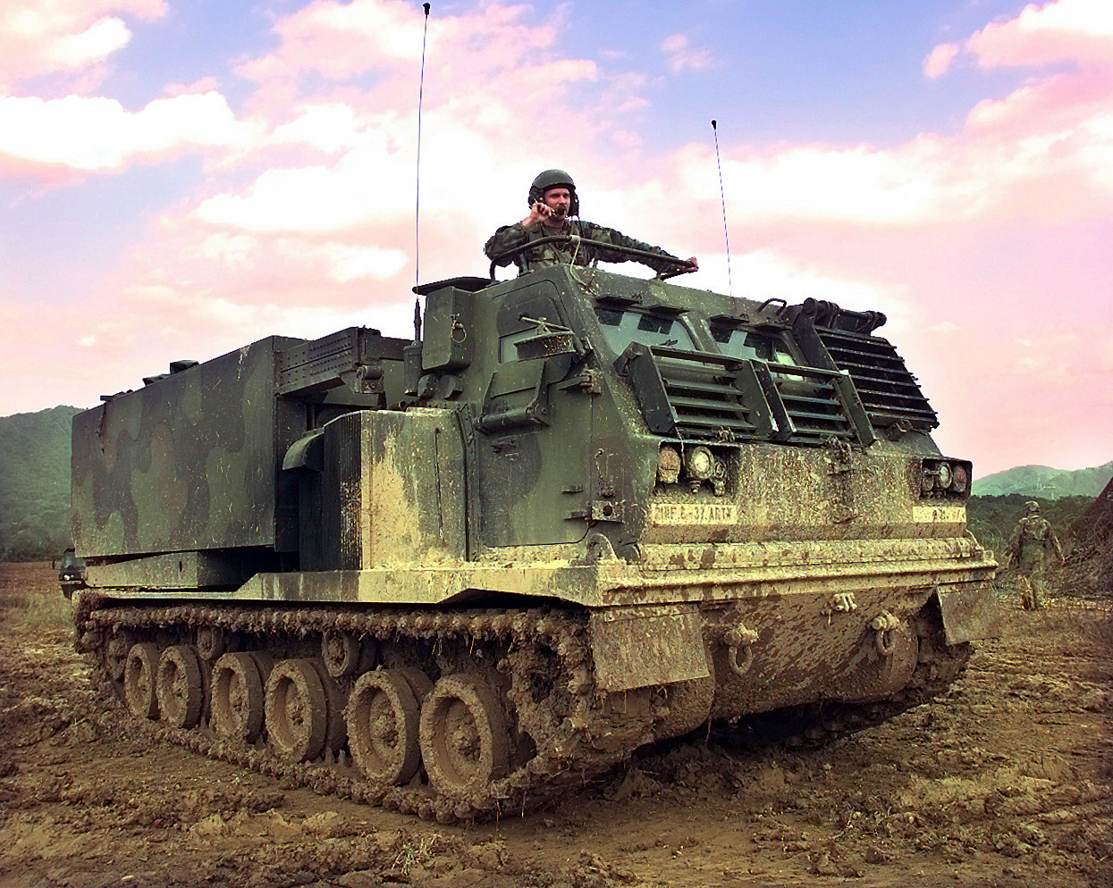 Track commander Sergeant Mike Stacher from 6th Battalion, 37th Field Artillery, Bravo Battery, guides his M-270A1 Multiple Launch Rocket System (MLRS) during a combined training exercise with the Republic of Korea's 3rd ROK Corps at Kwo Suck Jong Training area.